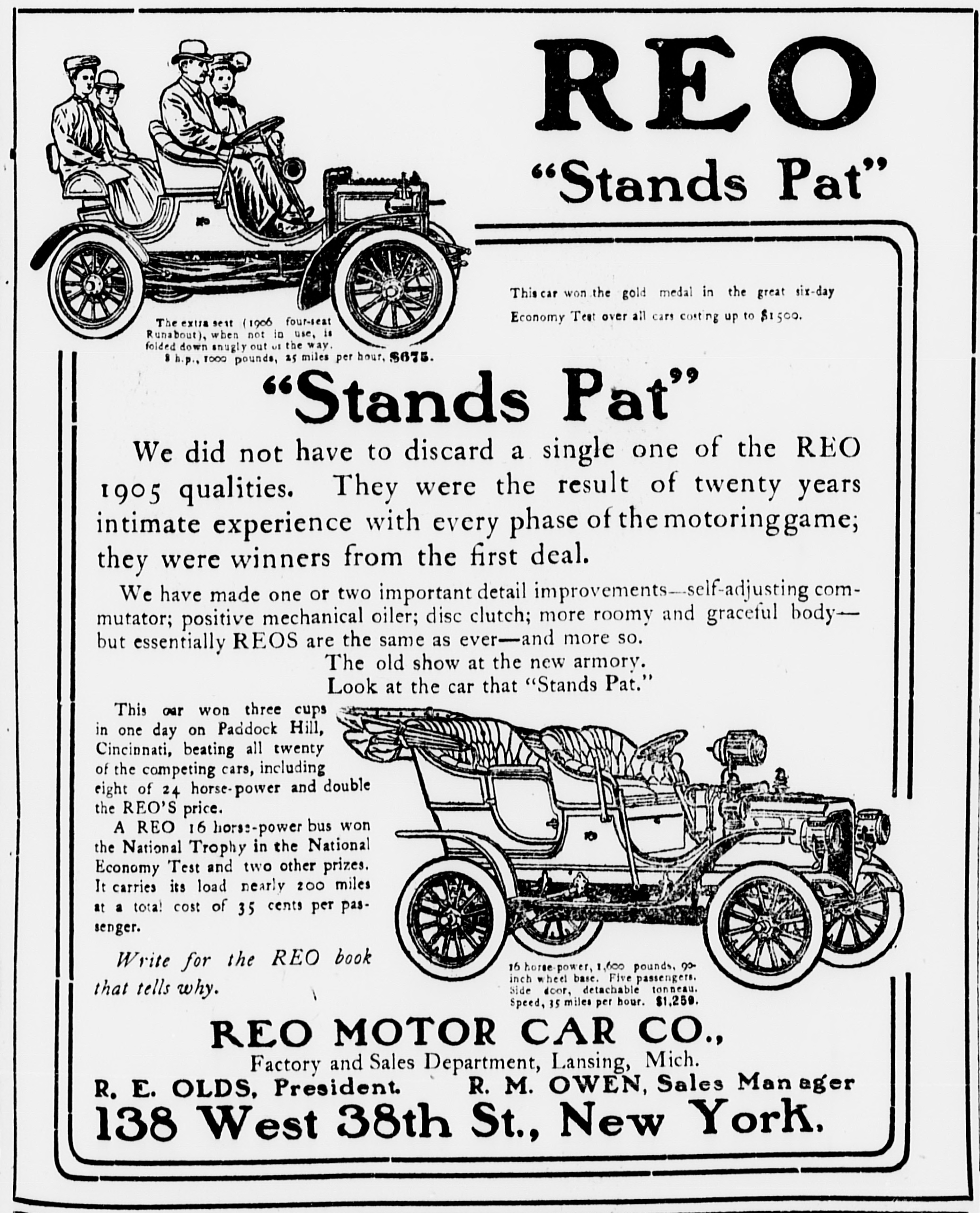 REO Motor Car Company newspaper advertisement from January, 1906